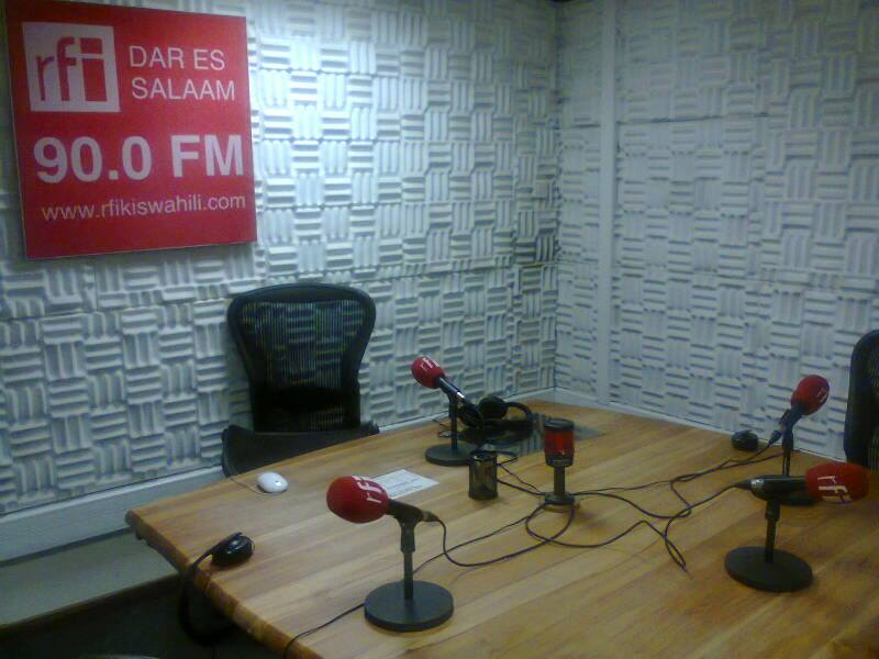 Radio France Internationale studio in Dar es salaam, Tanzania